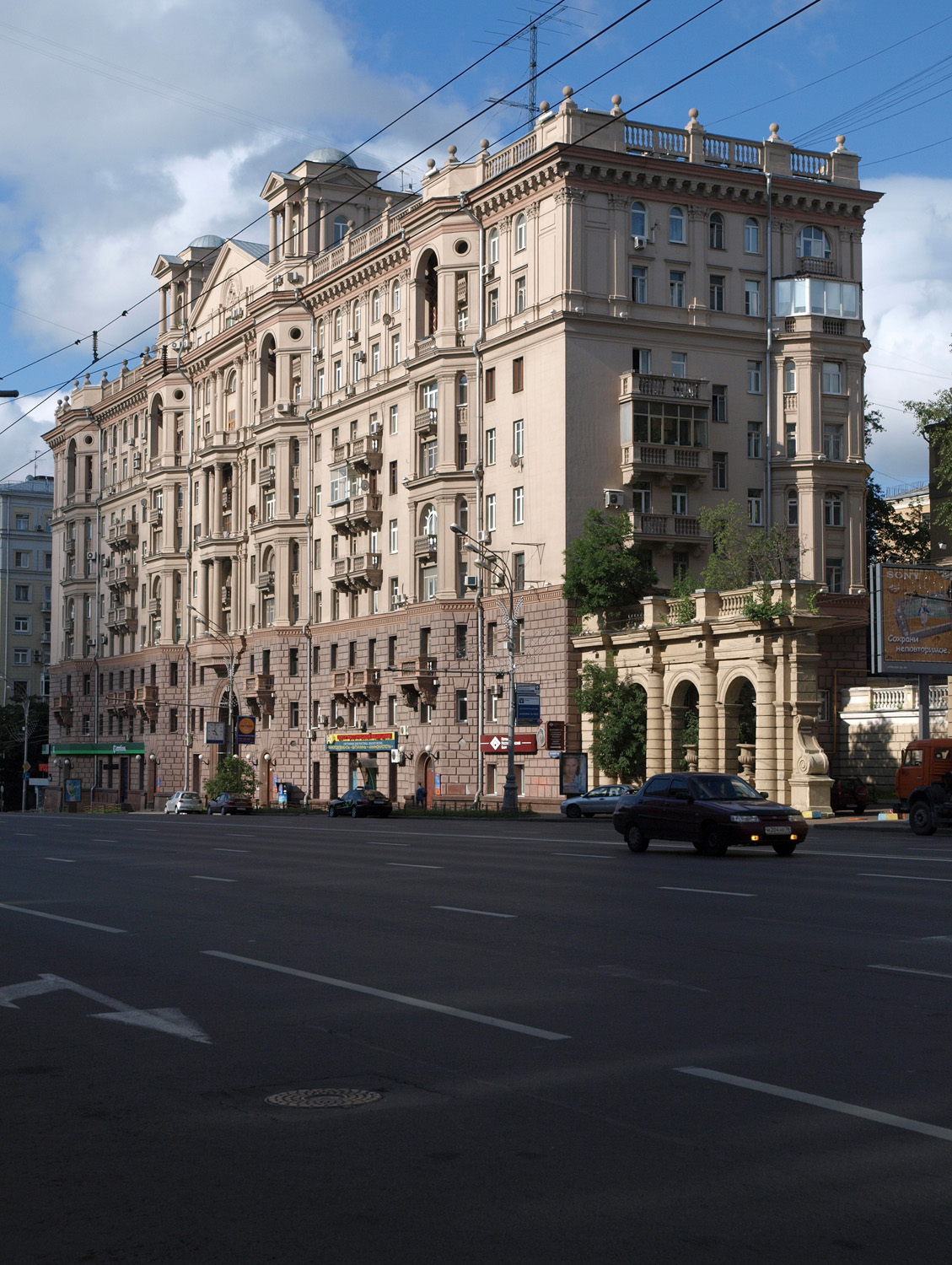 Zemlyanoy Val Street, Moscow.